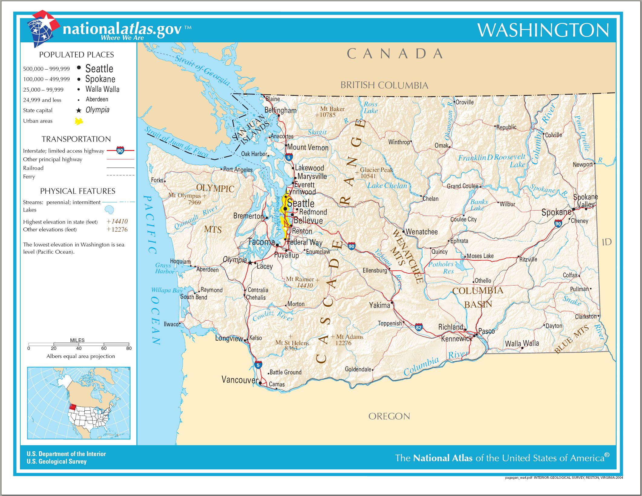 Map of Washington